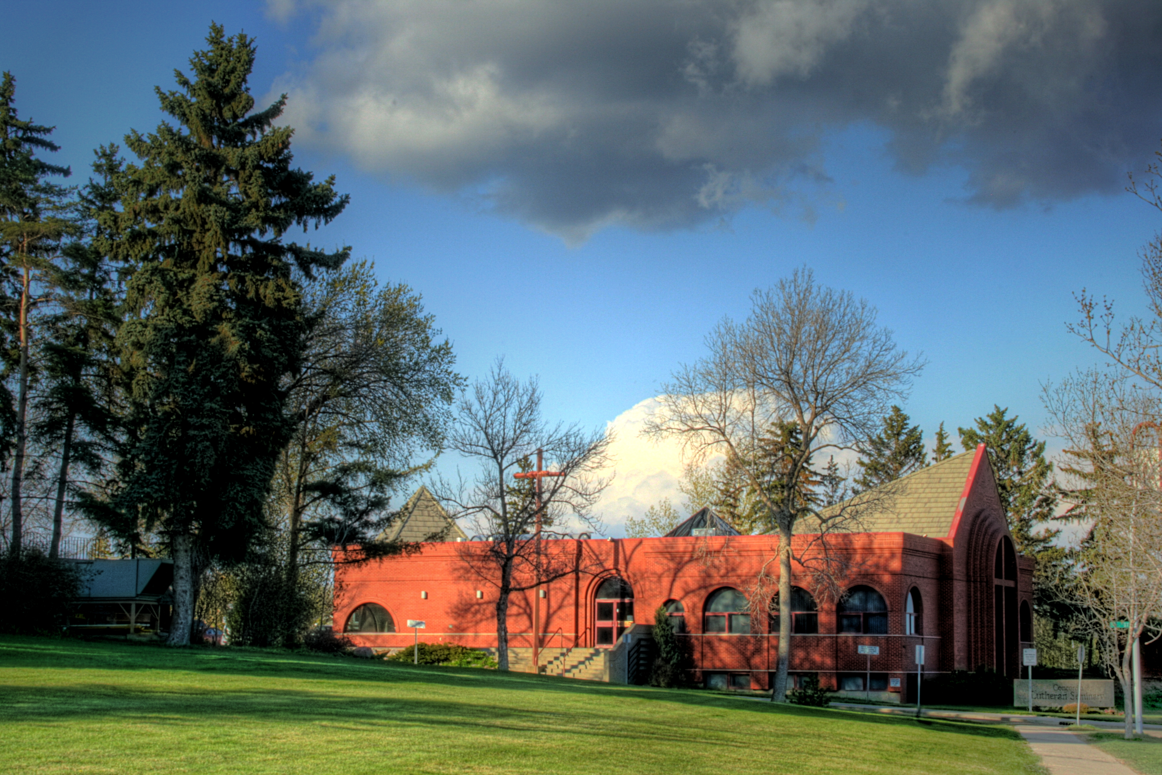 Concordia Lutheran Seminary in Edmonton, Alberta, Canada.